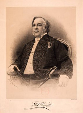 French composer Louis Clapisson (1808—1866)